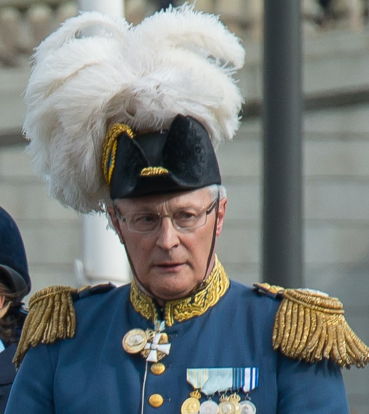 Crown Equerry Lieutenant General Mertil Melin after the wedding of Prince Carl Philip and Princess Sofia in a ceremony in the Royal Chapel and during the procession through central Stockholm. Picture taken at Gustav Adolfs Torg 13 June 2015.